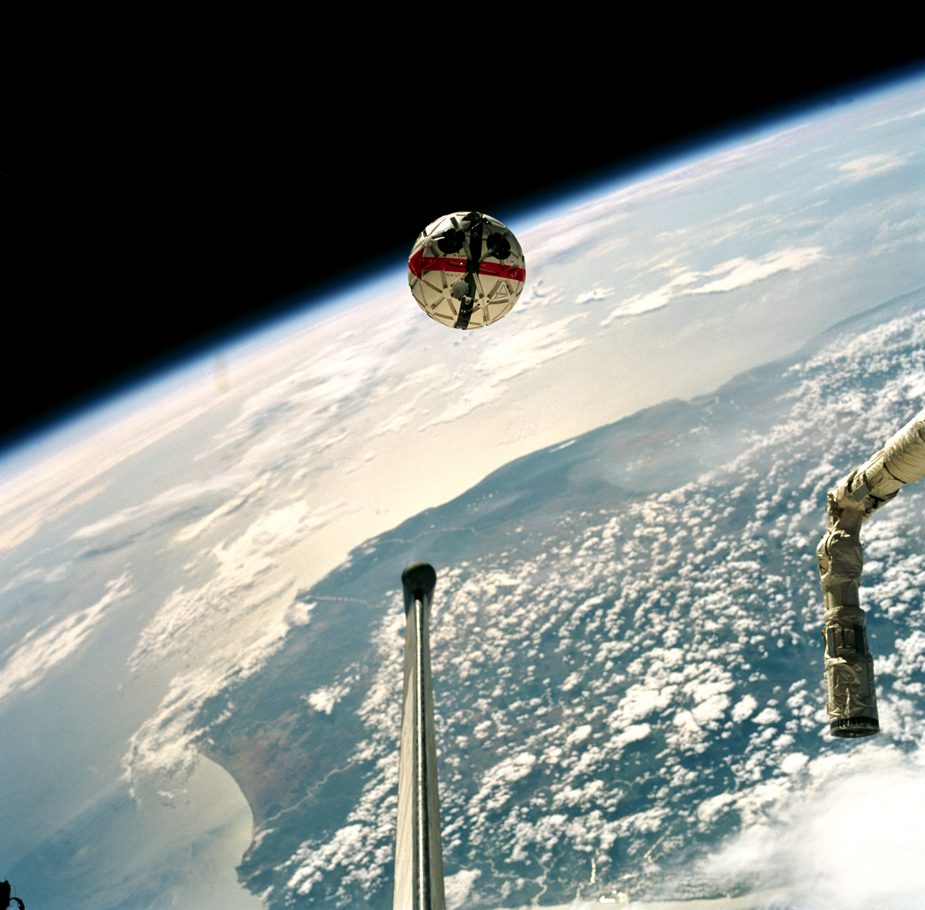 This Electronic Still Camera (ESC) view shows the Autonomous Extravehicular Activity Robotic Camera Sprint (AERCam Sprint) from the cargo bay of the Earth-orbiting Space Shuttle Columbia. The AERCam Sprint is a prototype free-flying television camera that could be used for remote inspections of the exterior of the International Space Station (ISS). This view was taken at 12:21:39 GMT.